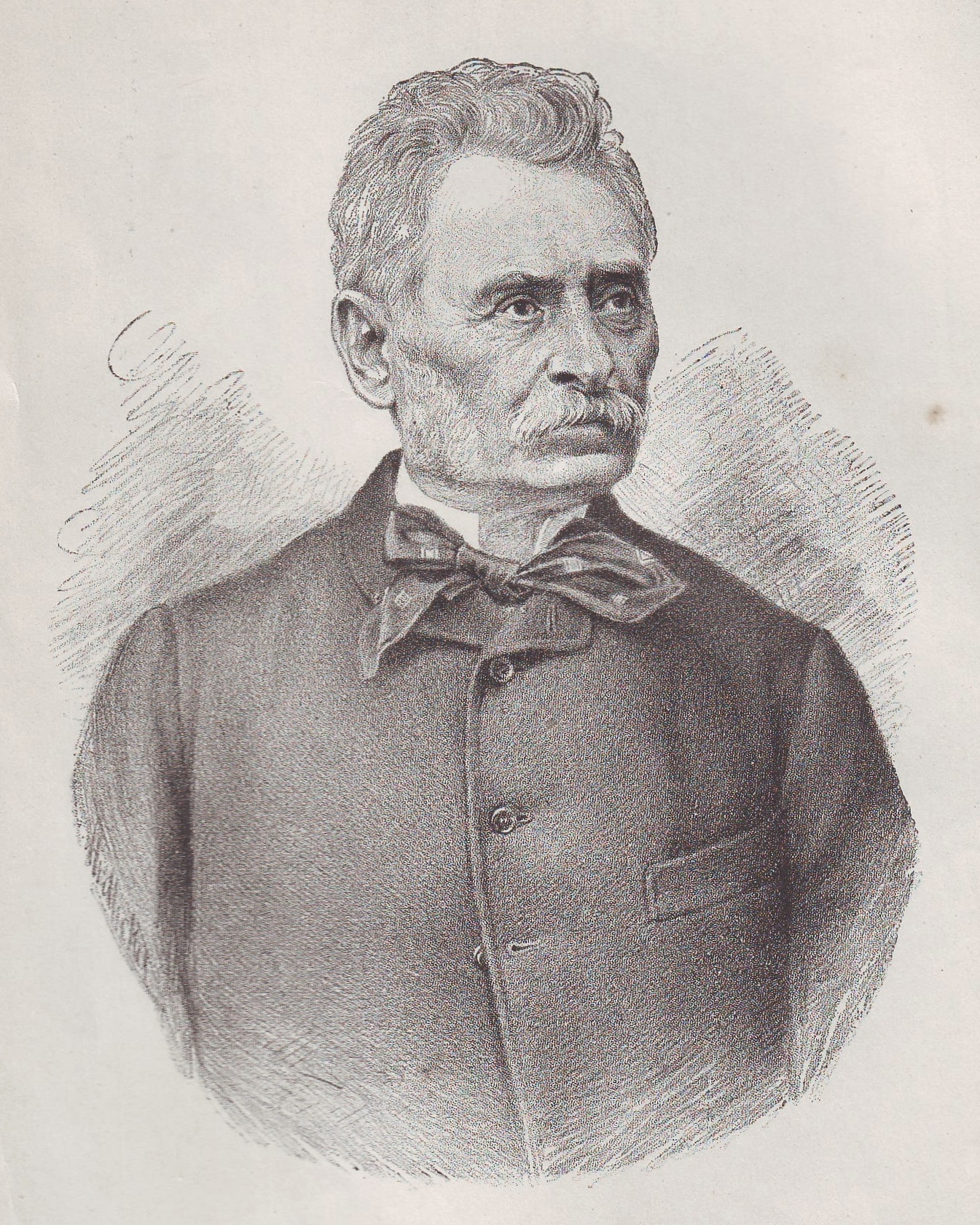 A lithograph of Miloš Dimitrijević (1824-1896), Serbian lawyer, politician and president of Matica Srpska. Taken from the memoir Uspomene iz moga života by Miloš Dimitrijević (Novi Sad, 1896). Srpski (latinica): Litografija Miloša Dimitrijevića (1824-1896), srpskog pravnika, političara i predsednika Matice srpske. Preuzeto iz memoara Uspomene iz moga života Miloša Dimitrijevića (Novi Sad, 1896).